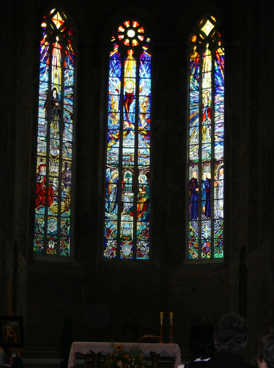 Stained glass windows of Virgin Mary in Collegiate church of Głogów